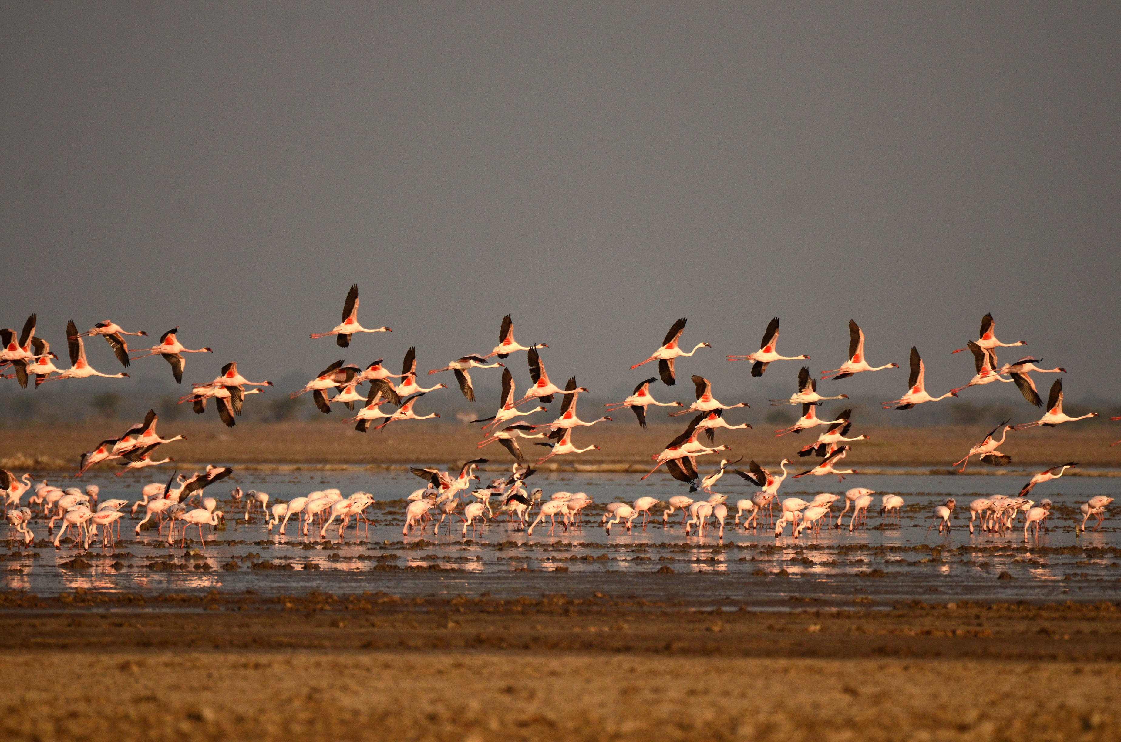 A flock of Lesser Flamingoes in Little Rann of Kutch, Gujarat.